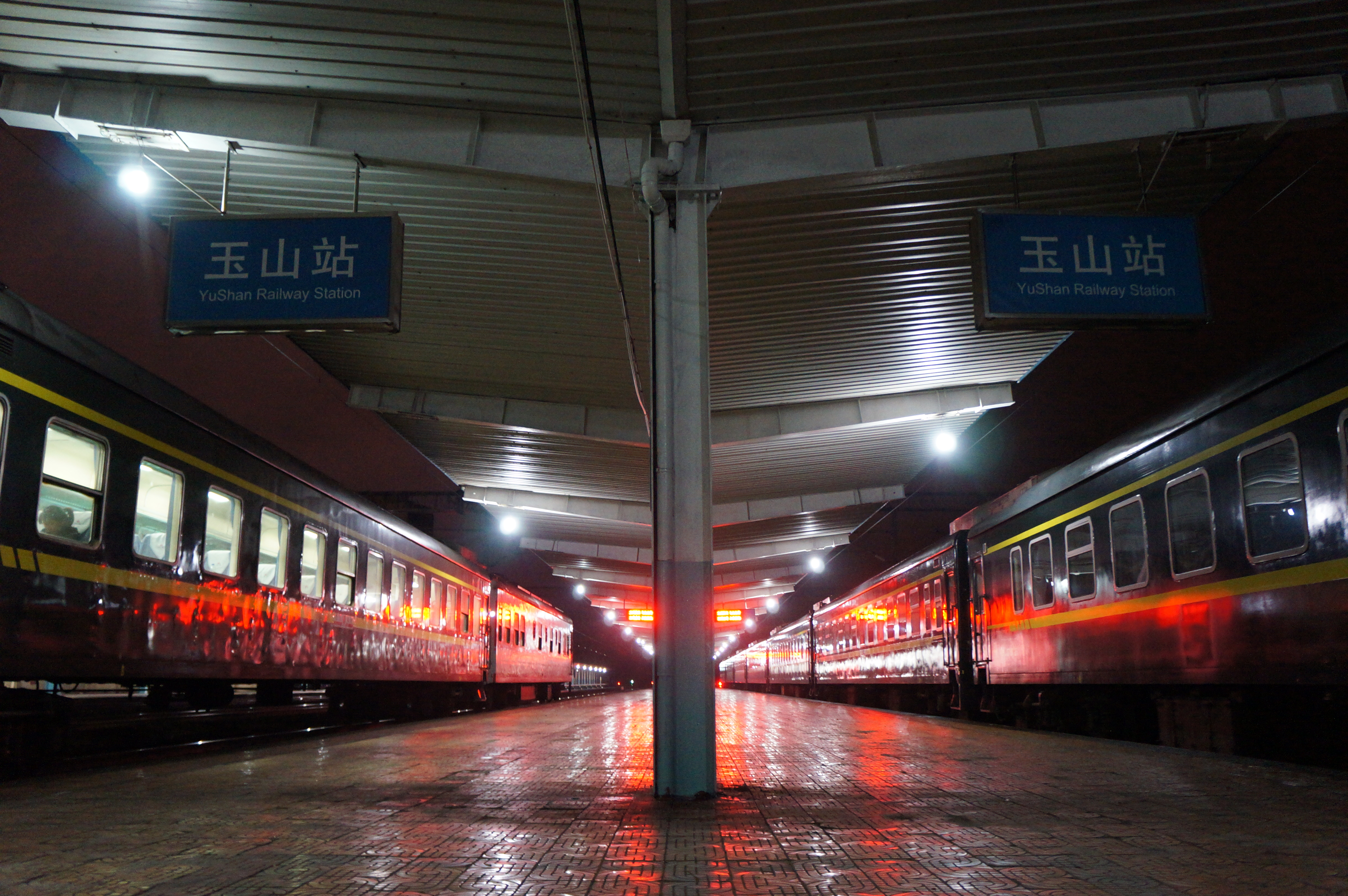 201612 Platform 2,3 of Yushan Station.